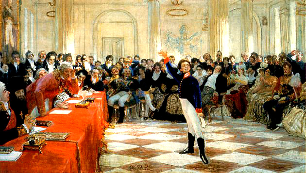 Alexander Sergeyevich Pushkin recites his poem before Gavrila Derzhavin during the Tsarskoye Selo Lyceum exam on January 8th, 1815. Oil on canvas. 123,7 × 195,5 cm. Tsarskoye Selo Lyceum (All-Russia A. S. Pushkin Museum), St. Petersburg. See also File:Pushkin derzhavin.jpg, the full version.